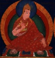 Sabzang Pakpa Zhonnu Lodro (b.1358 - d.1412) - Sakya Lama